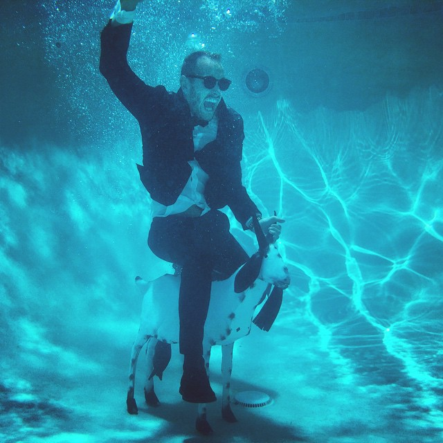 Image of Andreas Schuller (known by his producer name Axident).